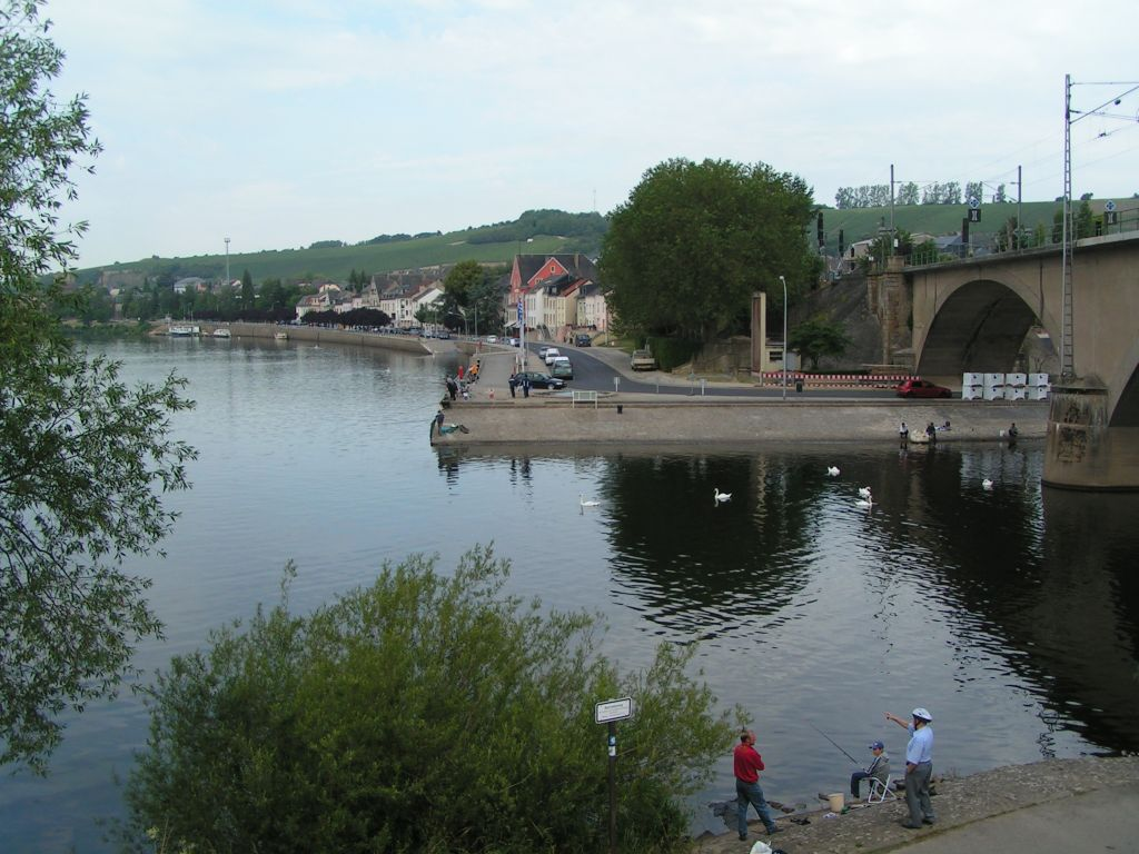 The Sauer flowing into the Moselle in Wasserbillig, Luxembourg